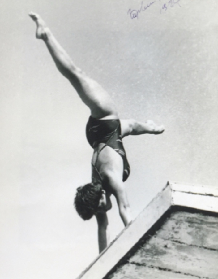 Sirvard Emirzyan diving from a 10 meter platform in Cuba after winning silver in the 1980 Moscow Olympics